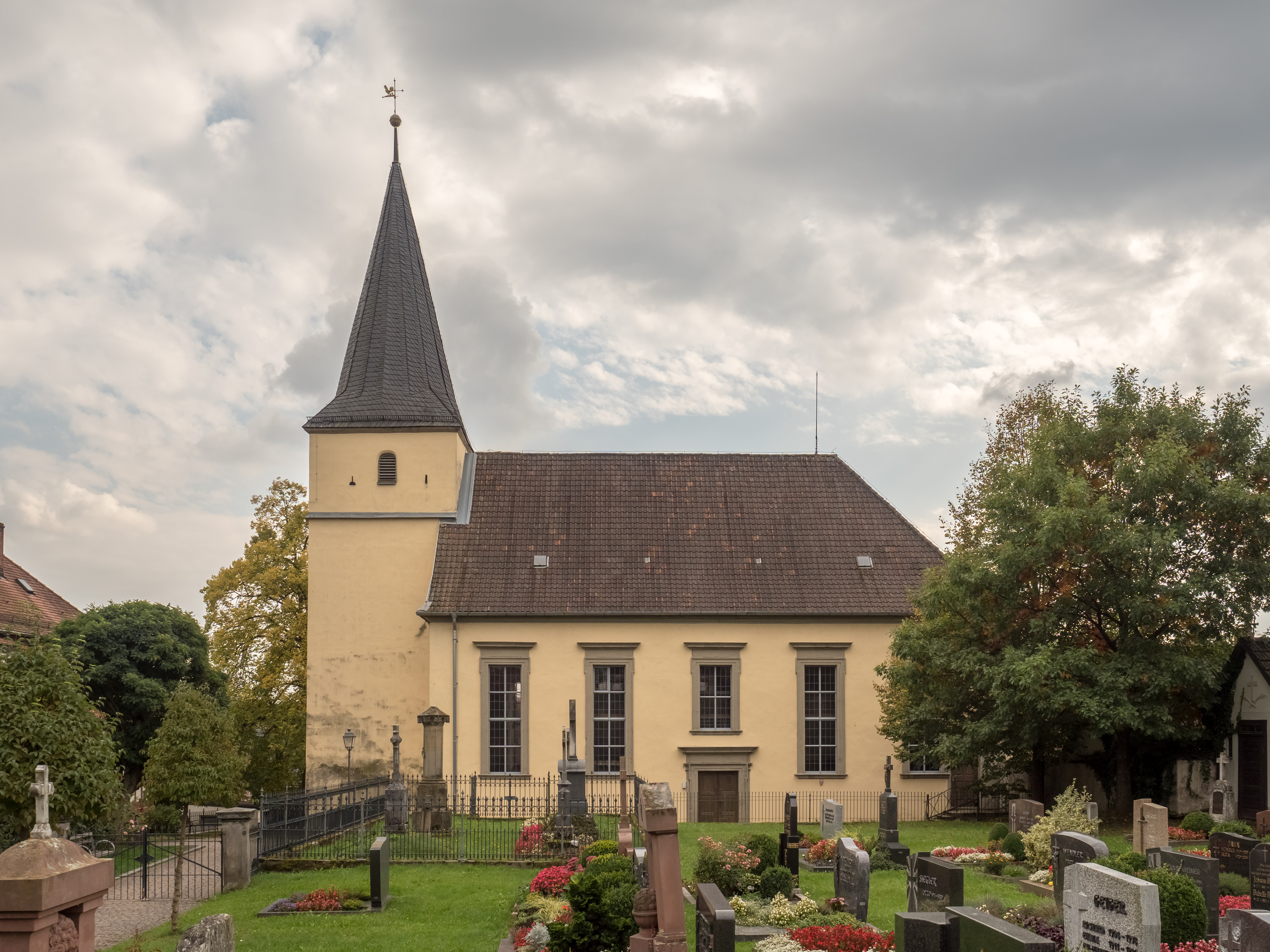 Simultaneous Church in Untermerzbach